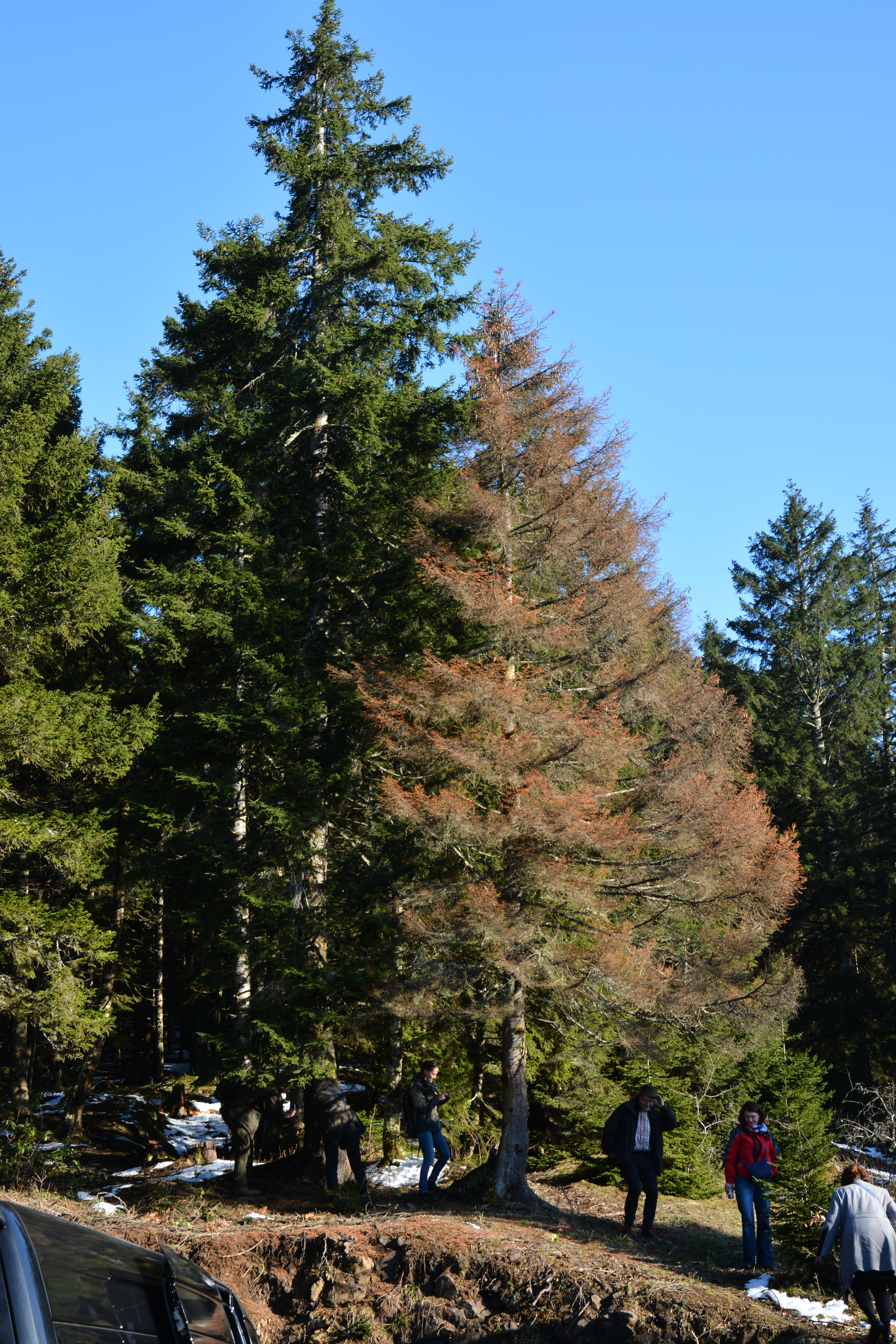 Picea orientalis killed by Dendroctonus micans (Coleoptera - Curculionidae - Scolytinae) in Turkey